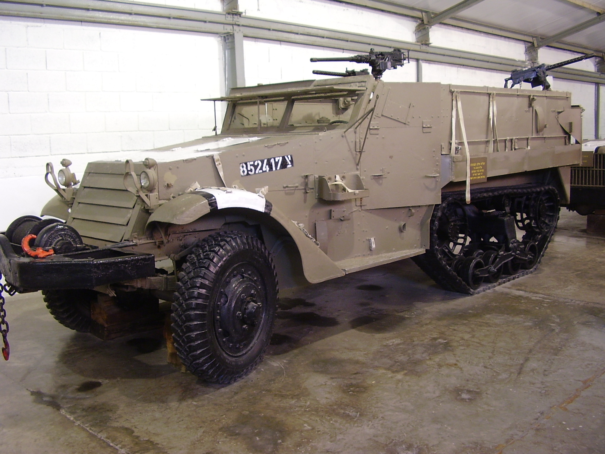 armored vehicle of col. motta gur in the six days war